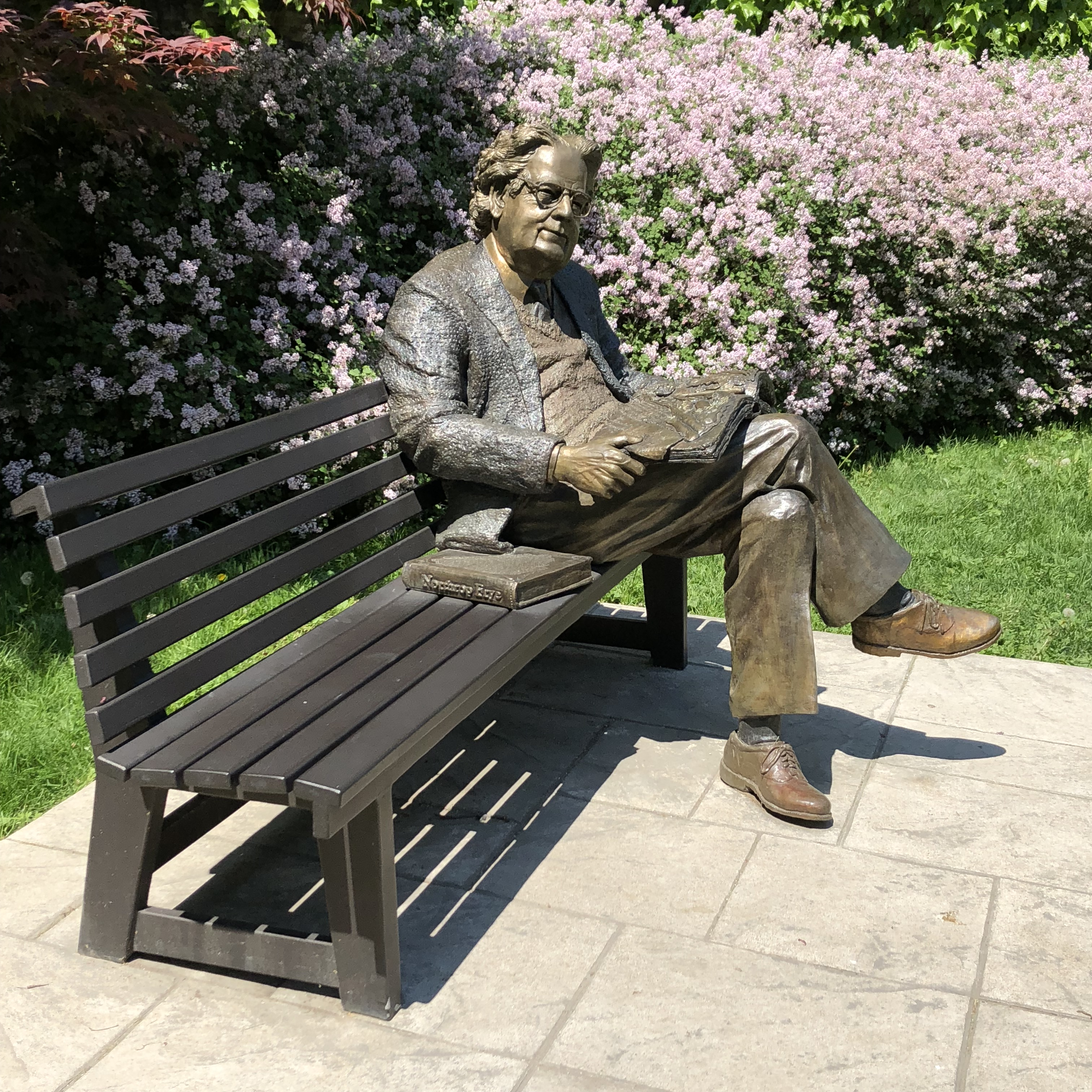 Northrop Frye sitting on a bench at the University of Toronto